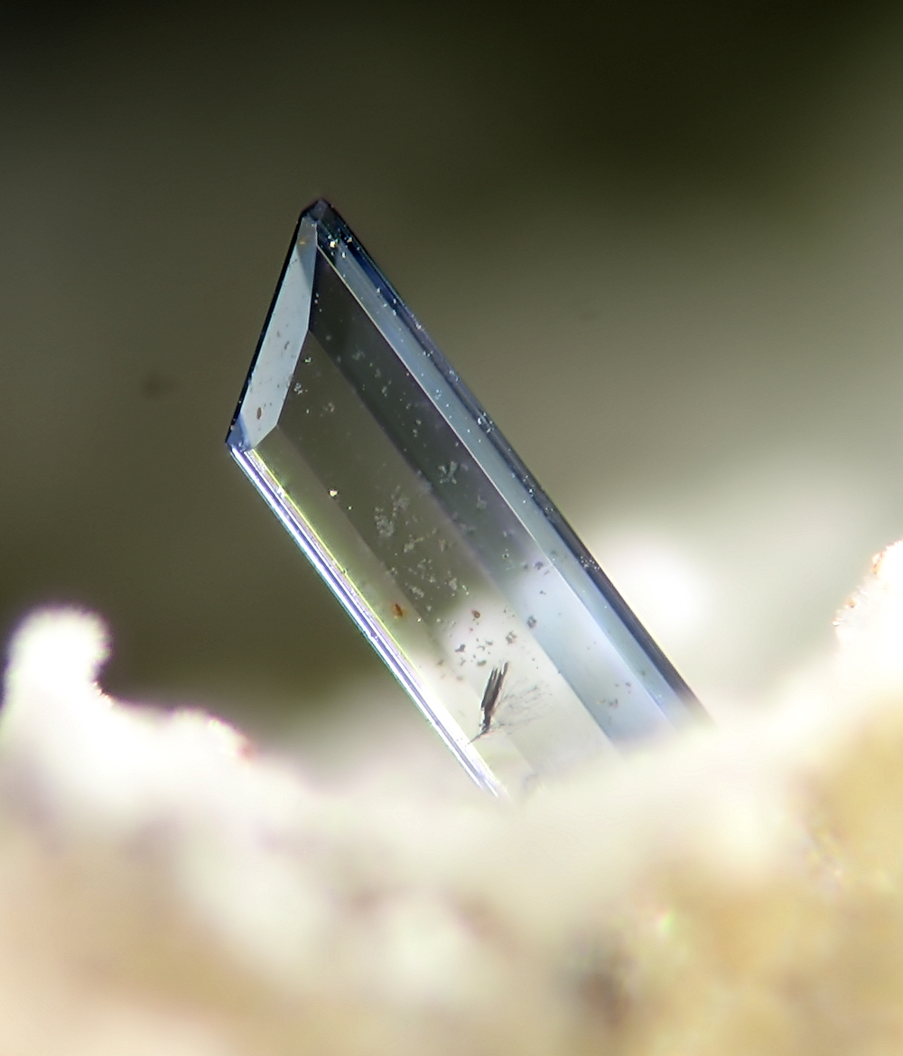 Vivianite Locality: Hagendorf South Pegmatite (Cornelia Mine; Hagendorf South Open Cut), Hagendorf, Waidhaus, Vohenstrauß, Oberpfälzer Wald, Upper Palatinate, Bavaria, Germany (Locality at ) Picture width 2 mm. Collection and photo Christian Rewitzer